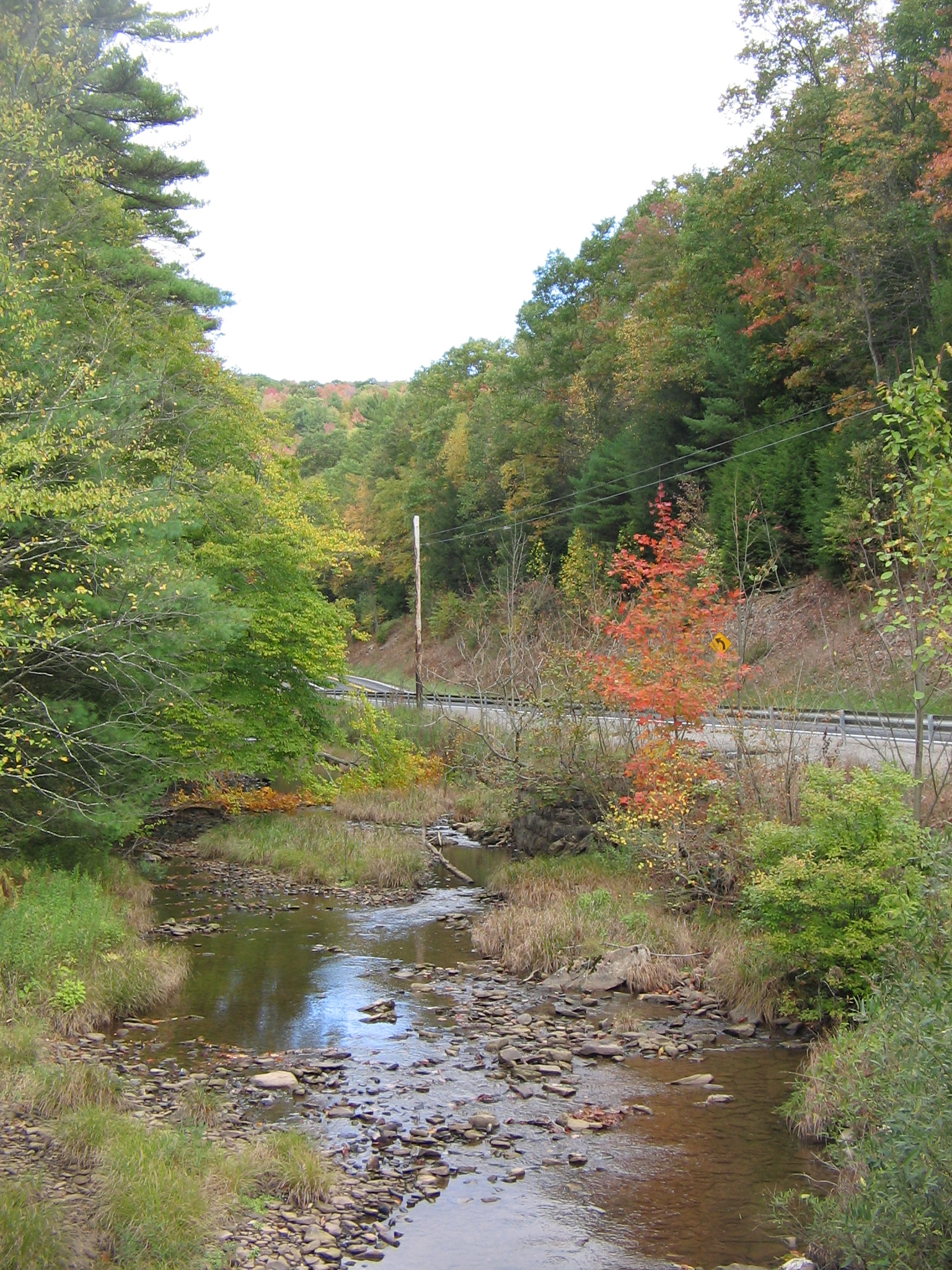 Second Fork Larrys Creek and Pennsylvania Route 287, Mifflin Township, Lycoming County, Pennsylvania, United States